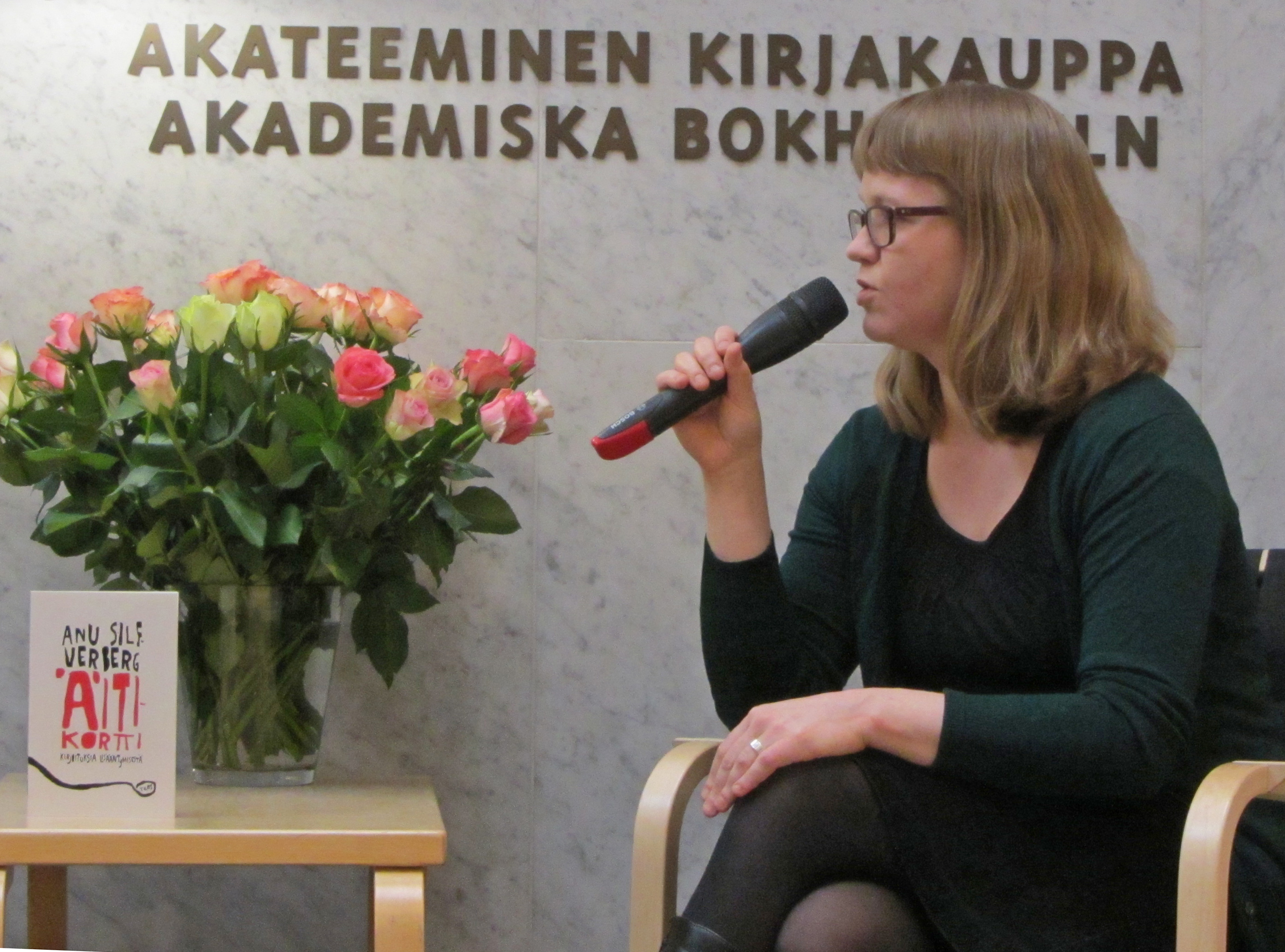 Finnish writer Anu Silfverberg on World Book Day in Helsinki in 2013